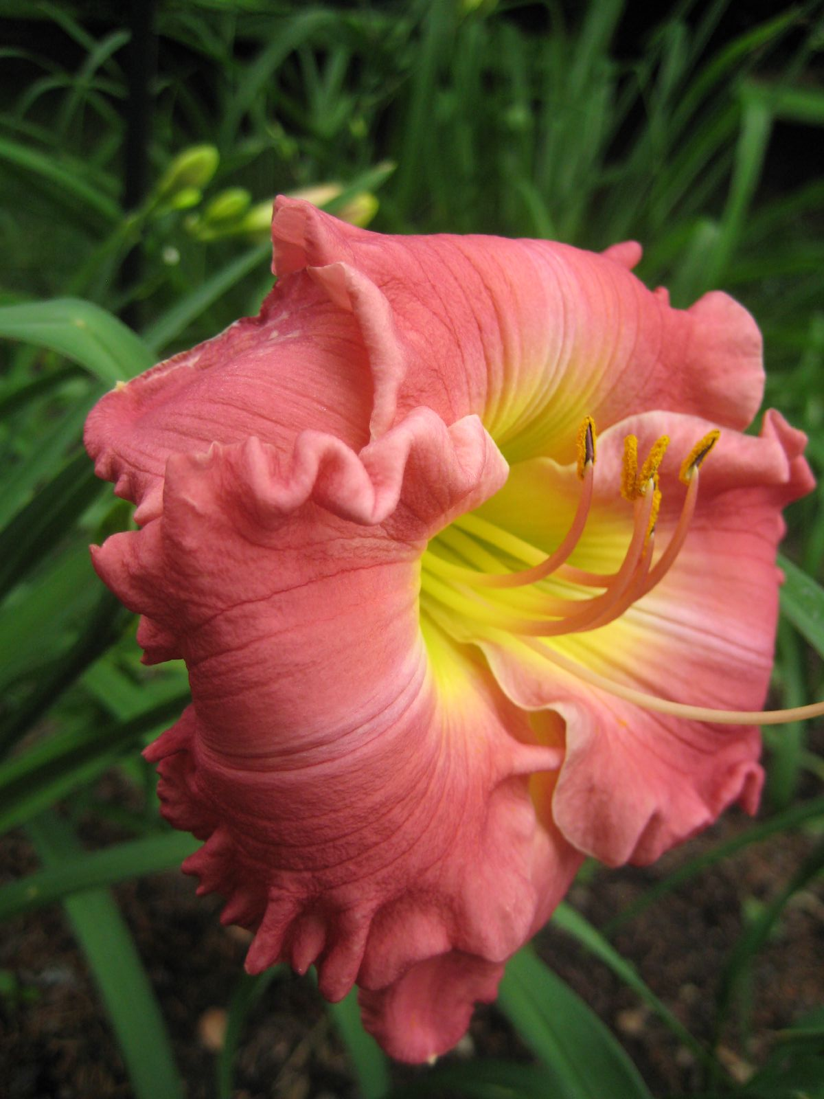 Hemerocallis 'Hush Little Baby' (Sikes) Hemerocallidaceae